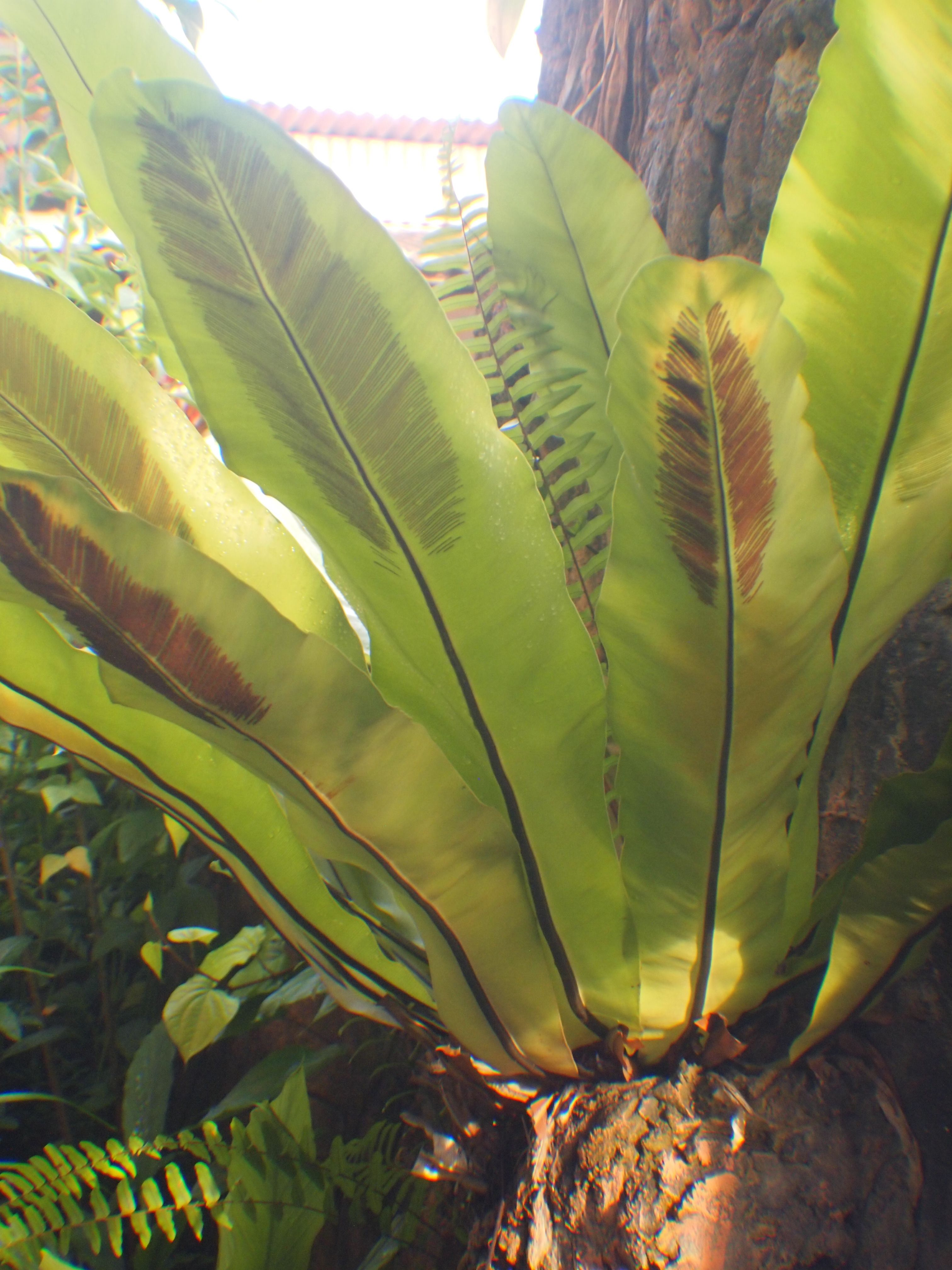 Asplenium nidus found in Malaysia (Asplenium nidus often grows as a epiphytic plant on trees (like is the case with the one in this picture)).